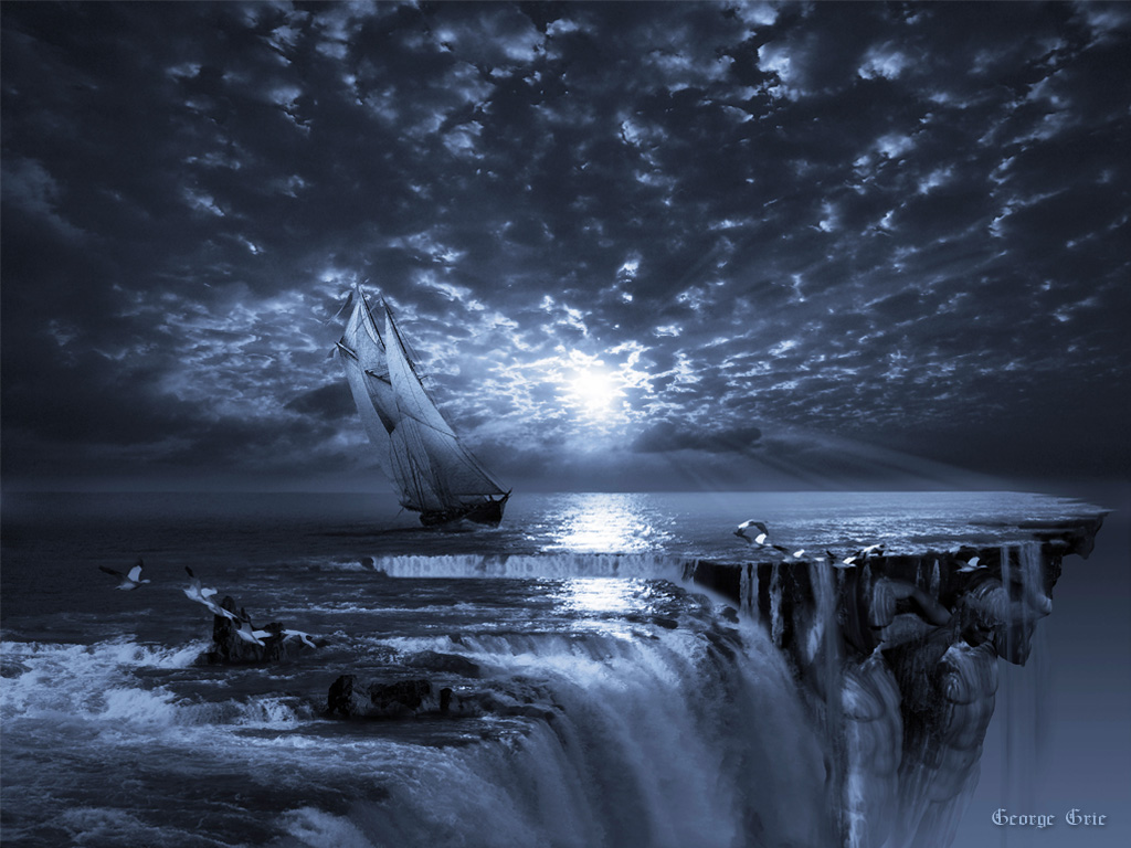 This image was inspired by a celebrated Canadian schooner Bluenose from Nova Scotia. Bluenose was built as a fishing vessel and a racing ship. Schooners were introduced by the Dutch in the 16th or 17th century as a type of a sailing vessel and were extremely popular during the golden age of piracy.